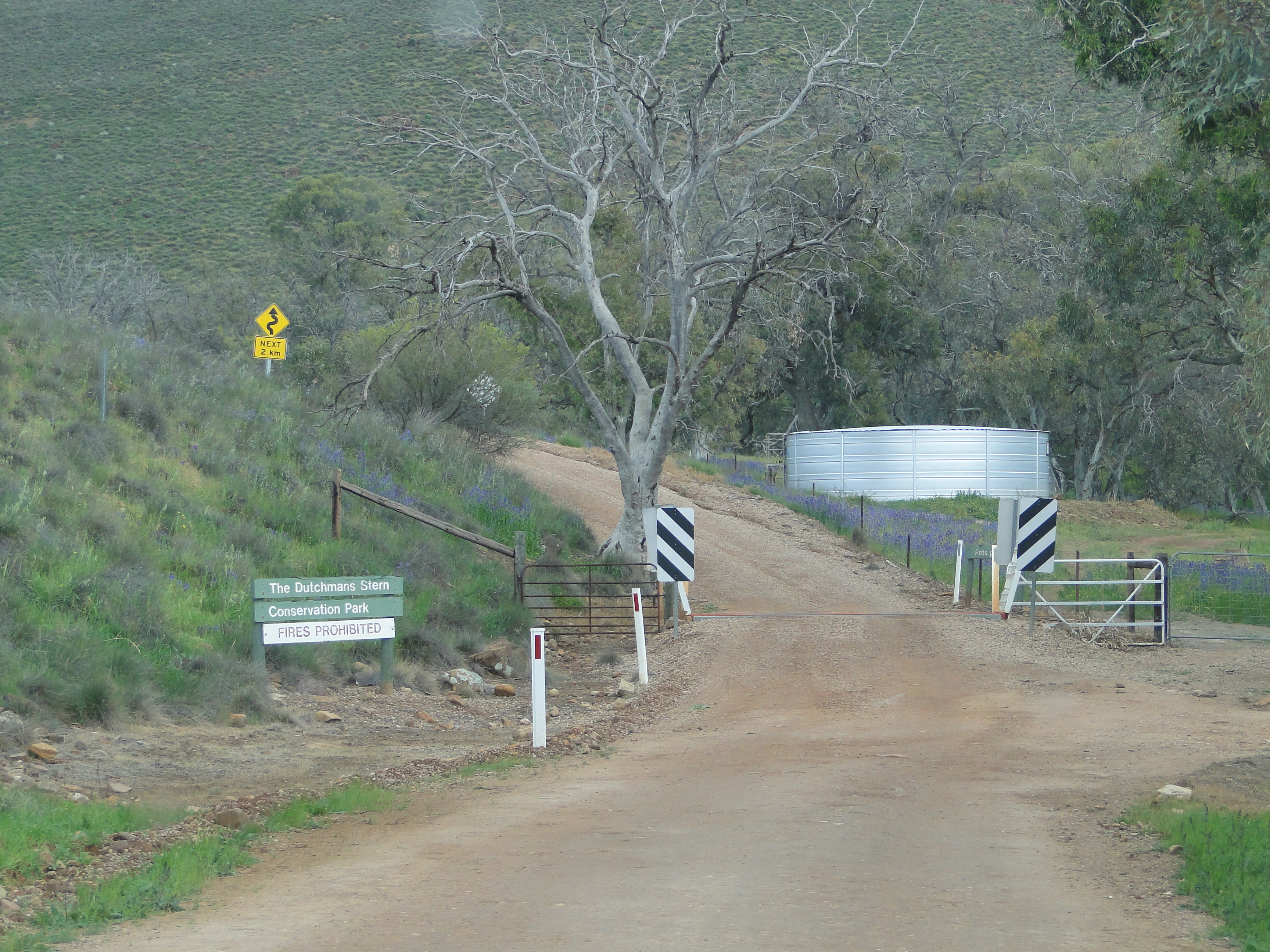 Entry gate to the The Dutchmans Stern Conservation Park, Flinders Ranges, South Australia